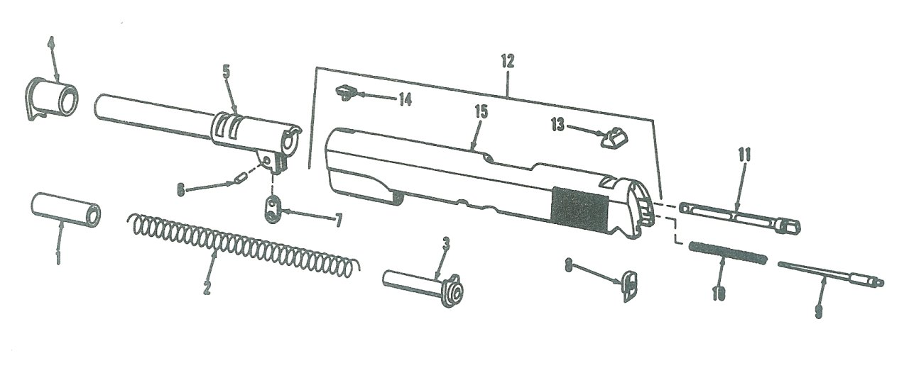 Exploded view of "Pistol Caliber .45, Automatic: M1911A1"